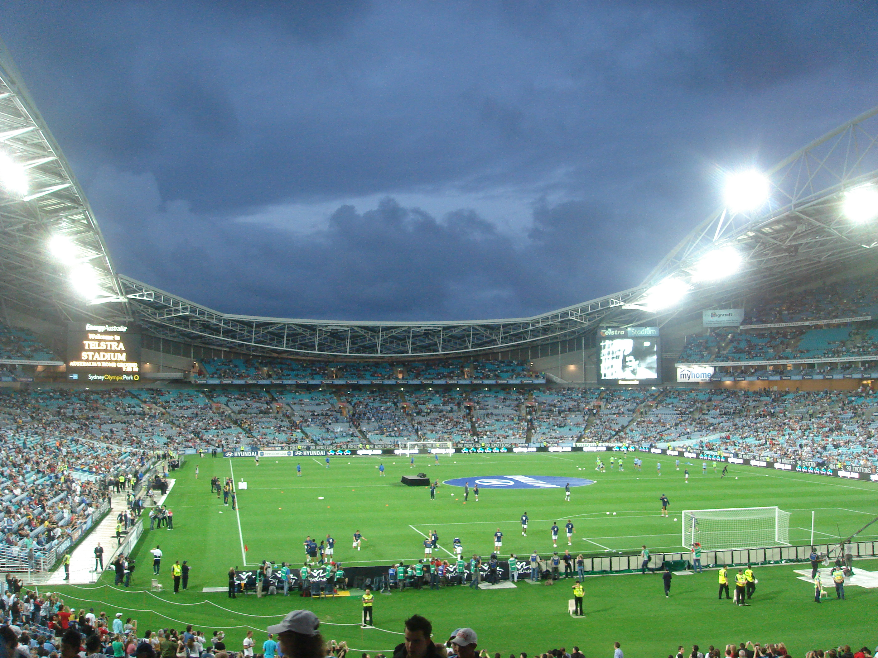 Telstra Stadium at night